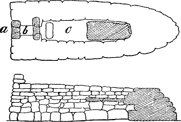 Plan and section of the navetta of Es Tudons by Cartailhac, Émile, 1845-1921